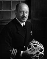 Commander Luis de Florez, USNR